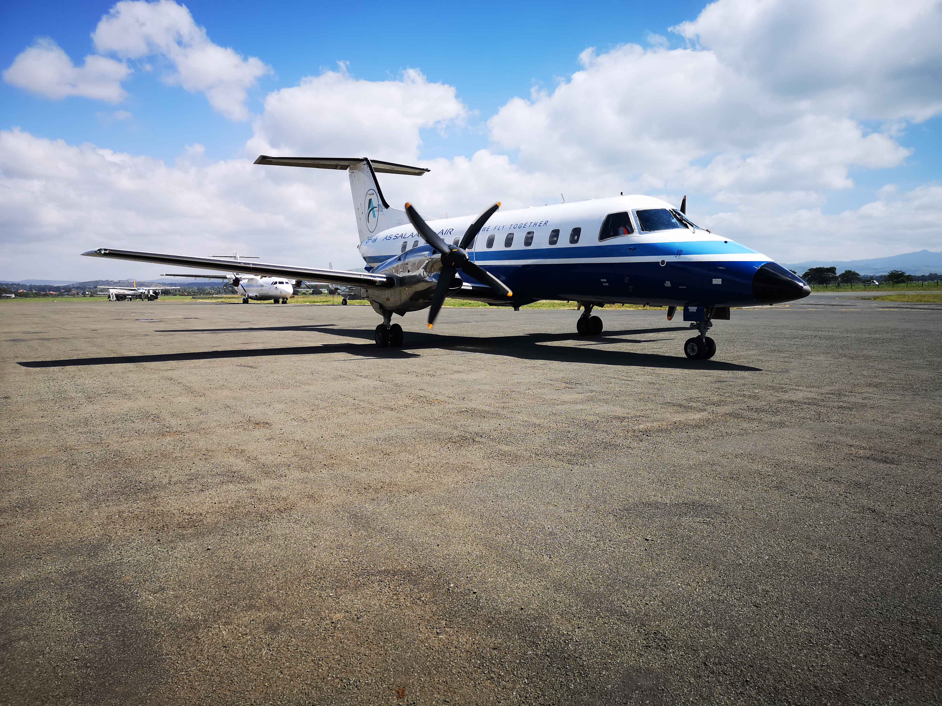 5H-IHN